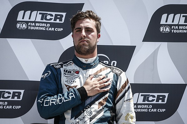 Podium win